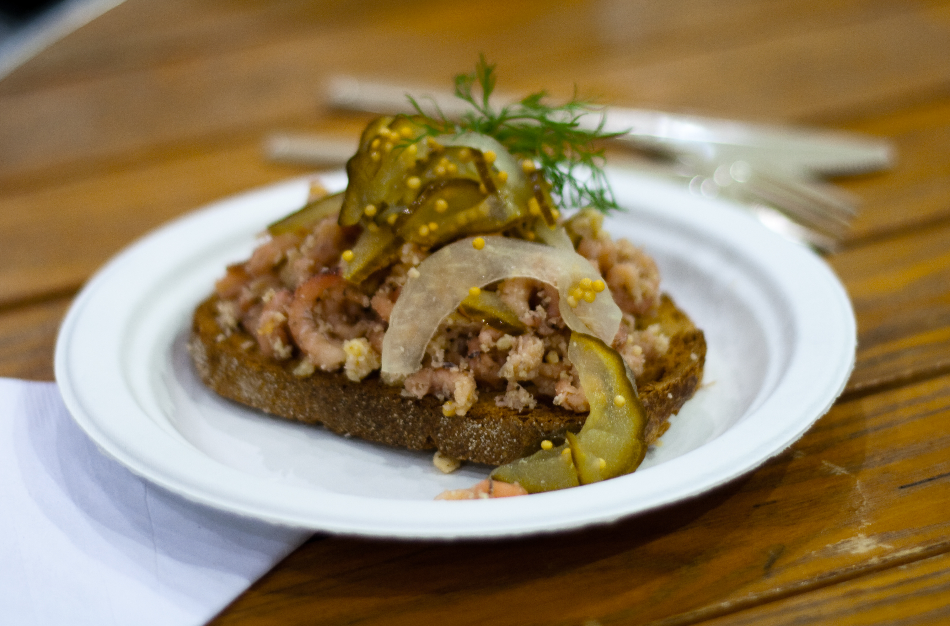 Potted shrimp is a traditional Lancastrian dish made with brown shrimp flavoured with mace.